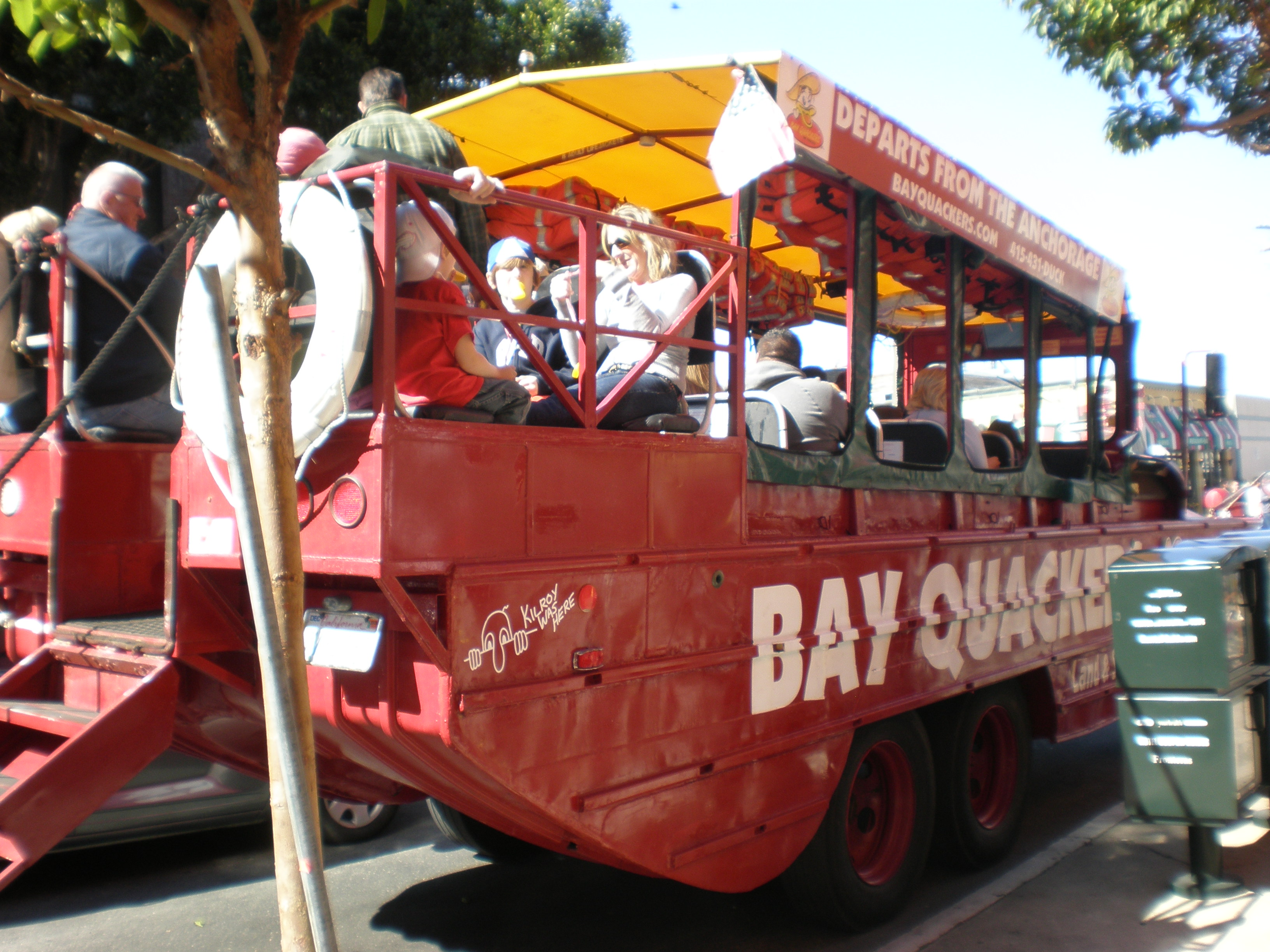 The Bay Quackers DUKW "Peking Duck" near Fisherman's Wharf.